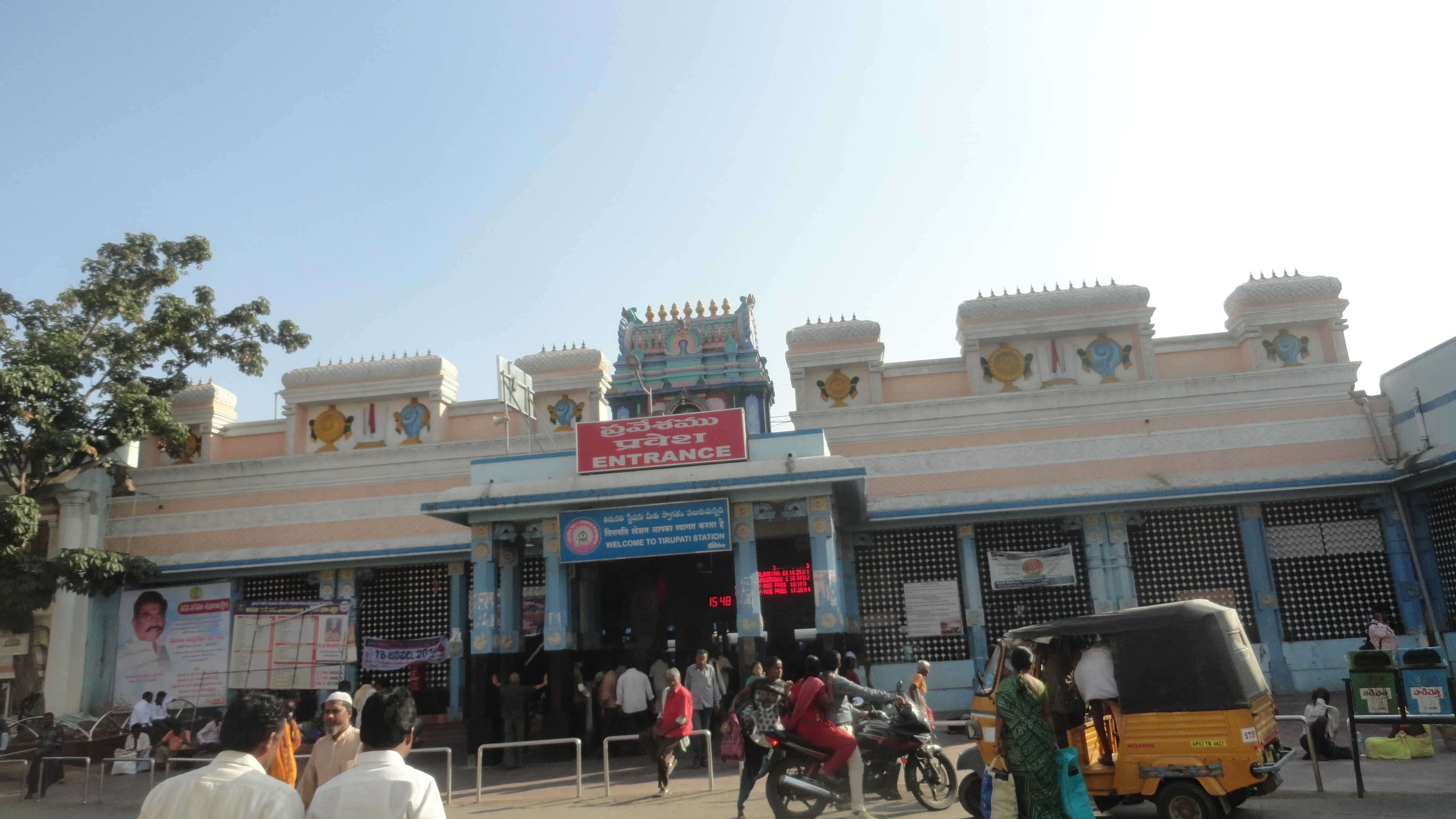 Indian railways